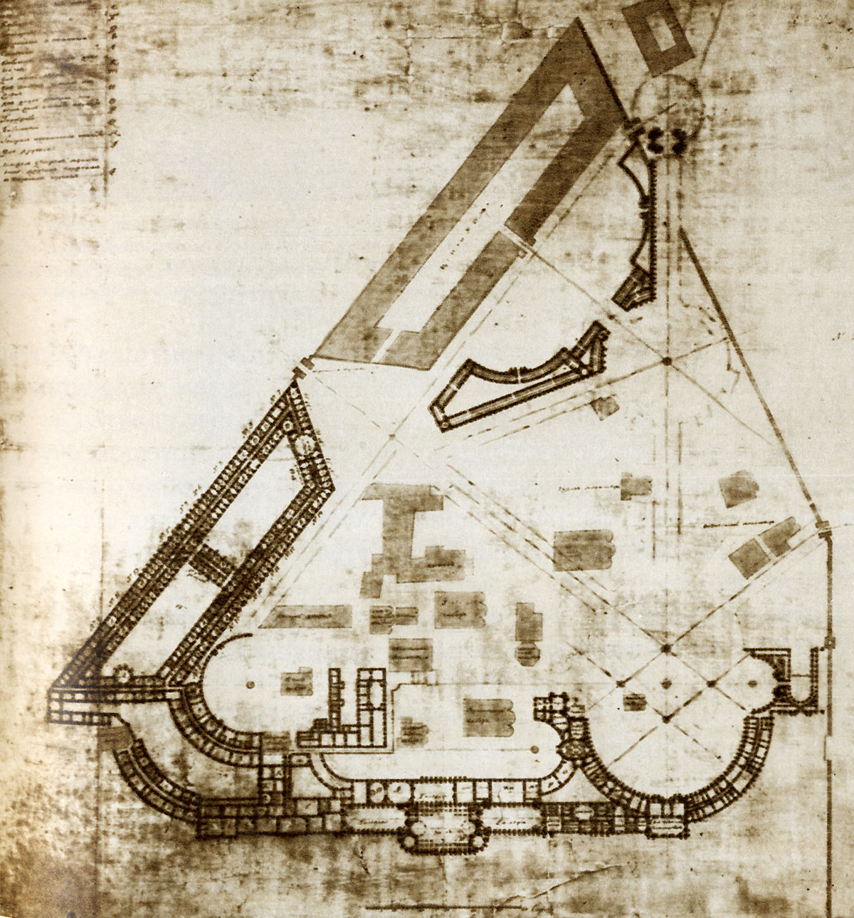 Final draft of Vasili Bazhenov's rebuild of Moscow Kremlin. A 1799 copy of original plan produced in 1770 or later.